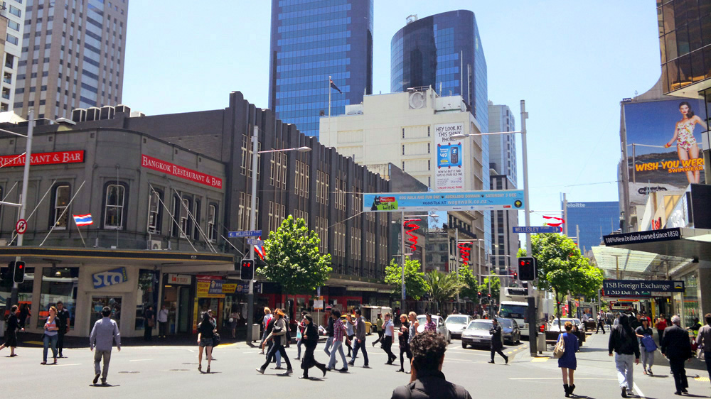 Intersection of Queen and Victoria Streets in Auckland